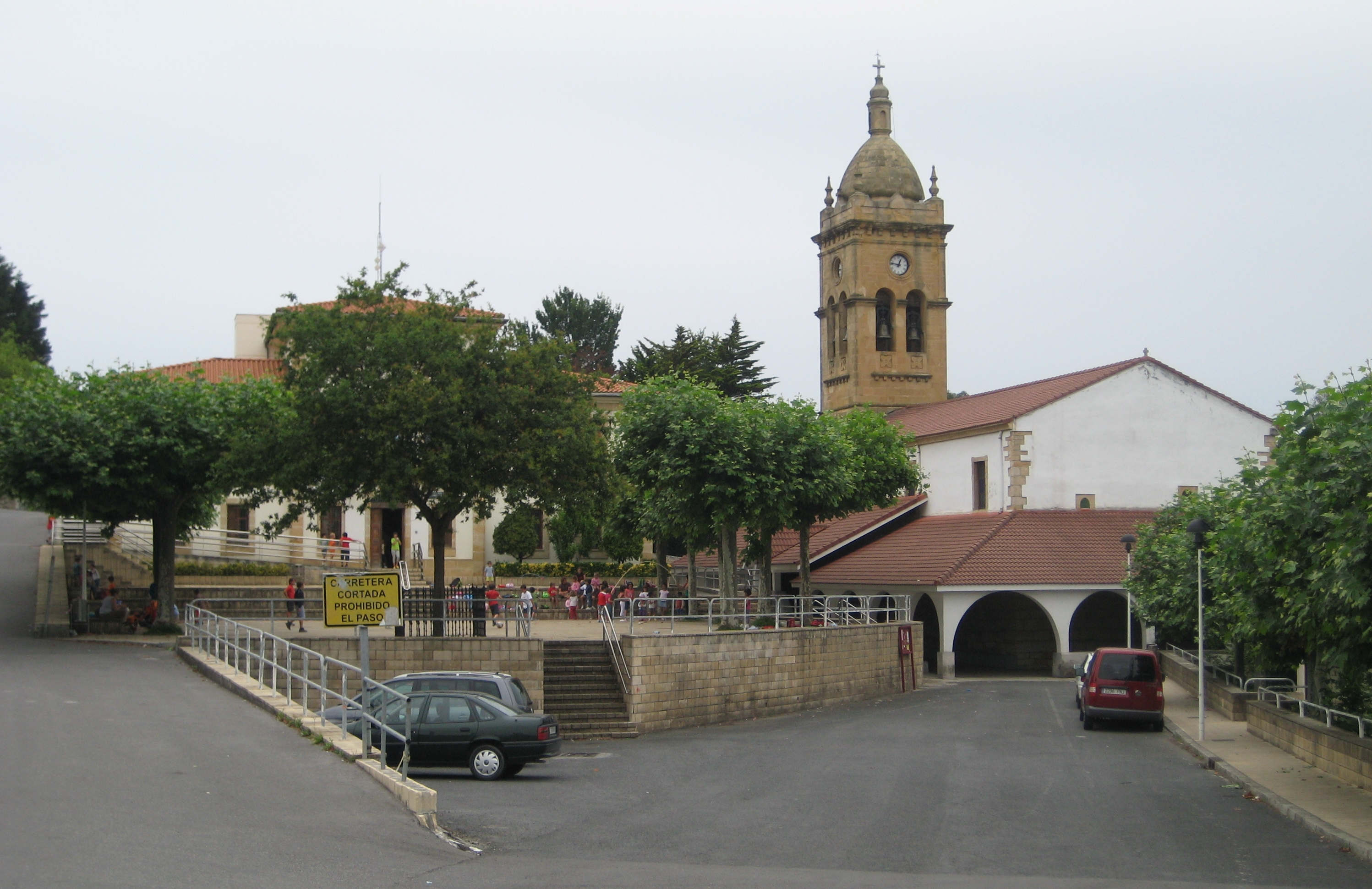 Elexalde area of Barrika, Biscay, Spain.